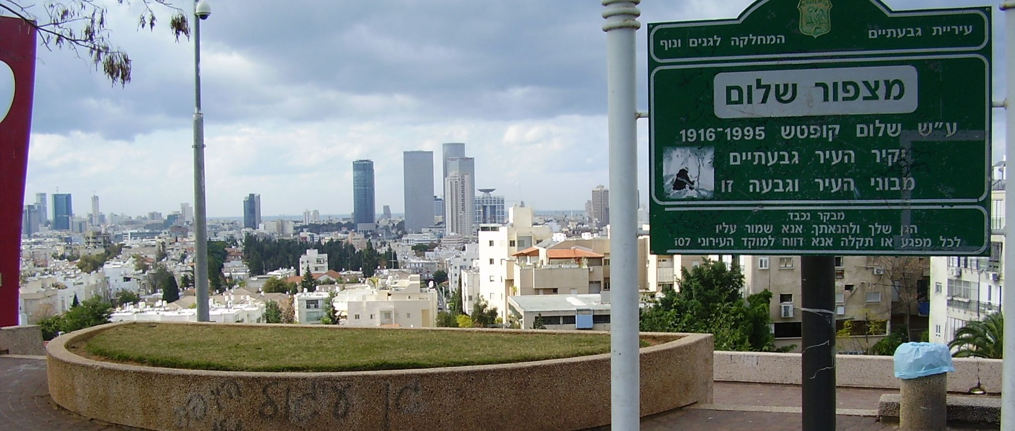 shalom look-out in givataim